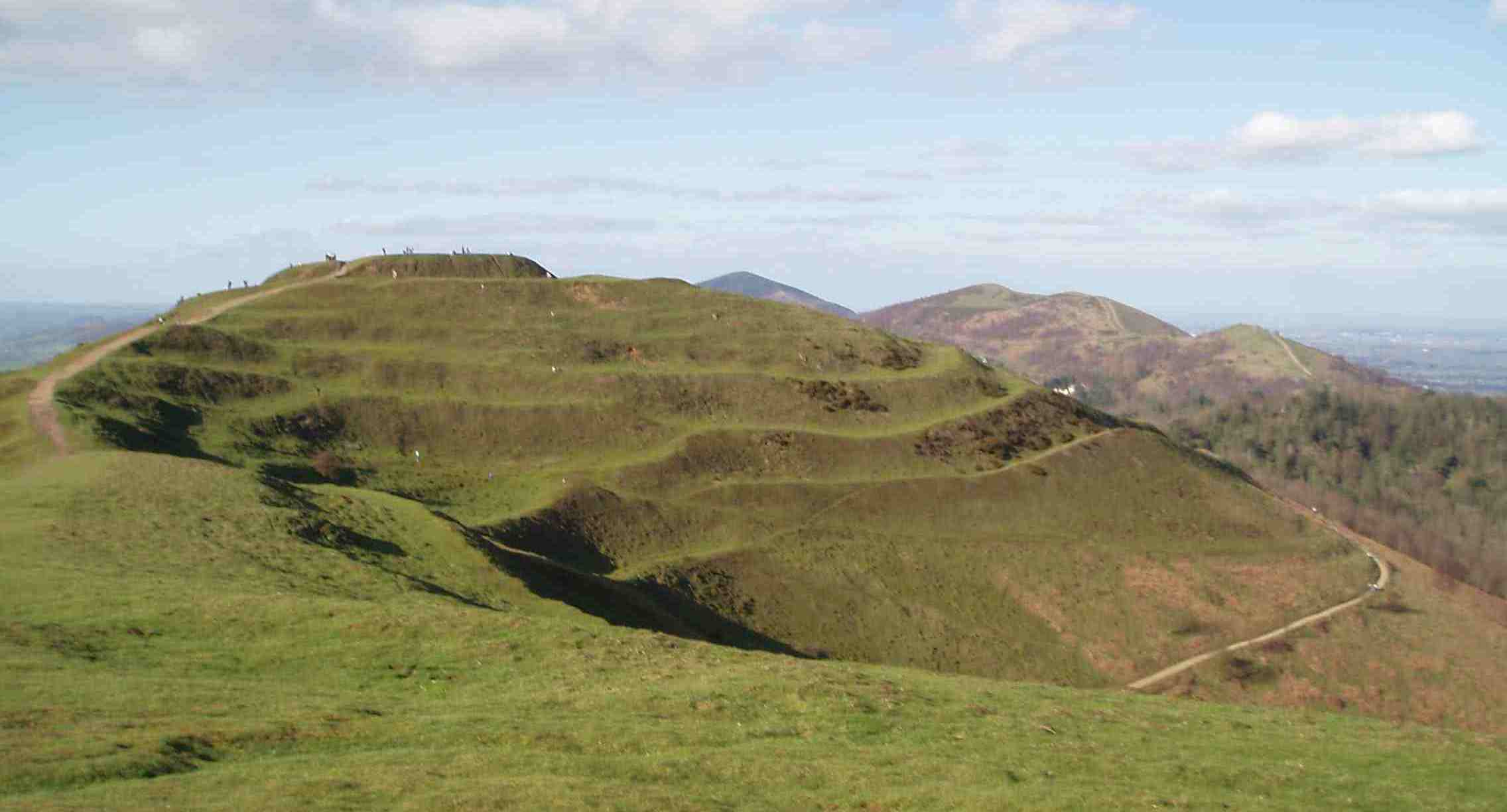 The central mound of the hillfort at British camp, viewed from the south. The layered earthwork defences can be seen clearly. Photo taken in March 2005.